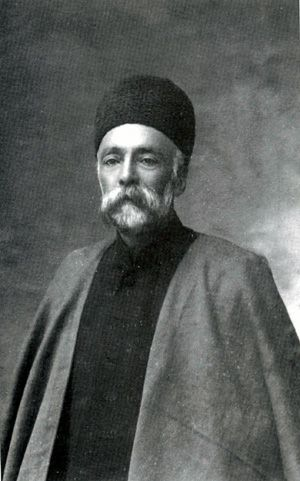 Amir-Bahador Jang, a Qajar era nobleman